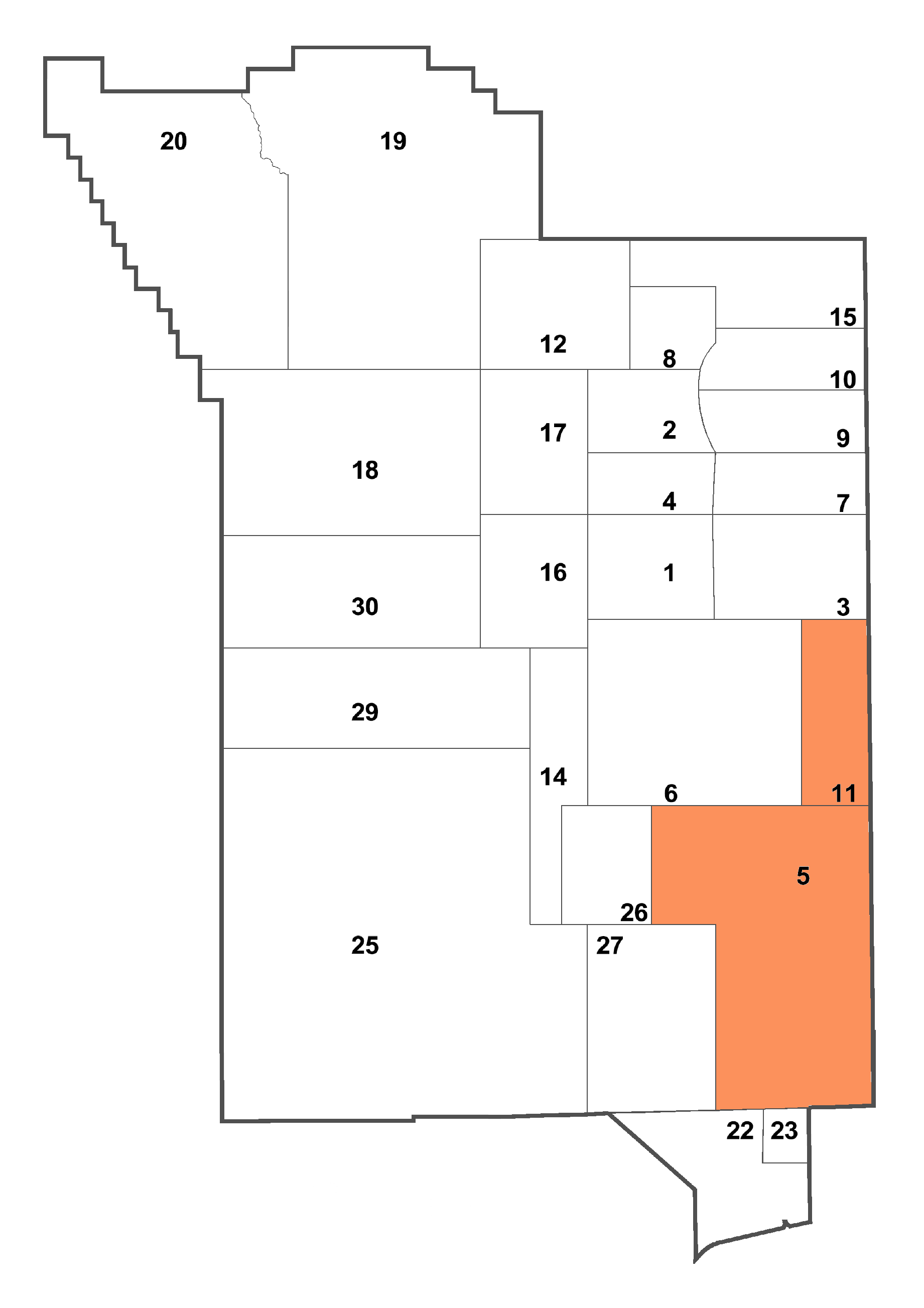 Graphic image of the Nuclear Test Site (NTS) geographic section called Frenchman Flat, as defined by Area 5 and Area 11, per United States Geographic Survey.